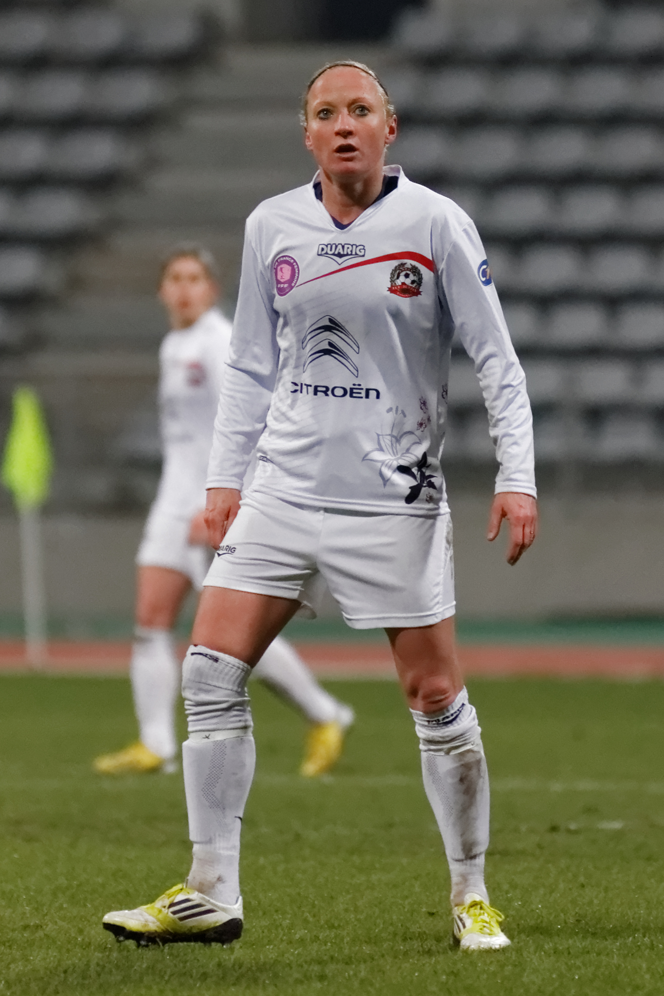 PSG-Juvisy, March 23th, 2013.